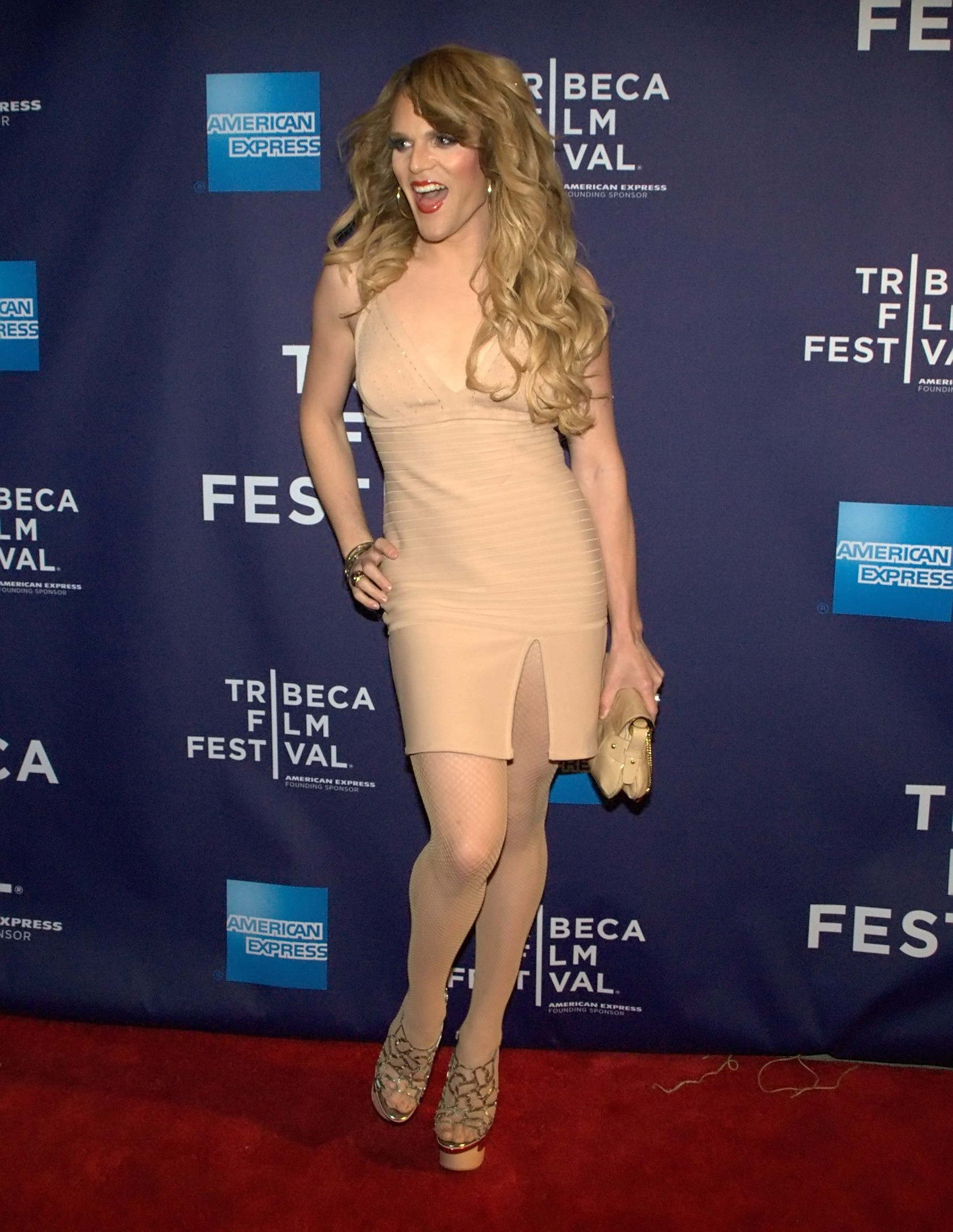 Ticked-Off Trannies With Knives Shankbone blog post. (About David Shankbone)